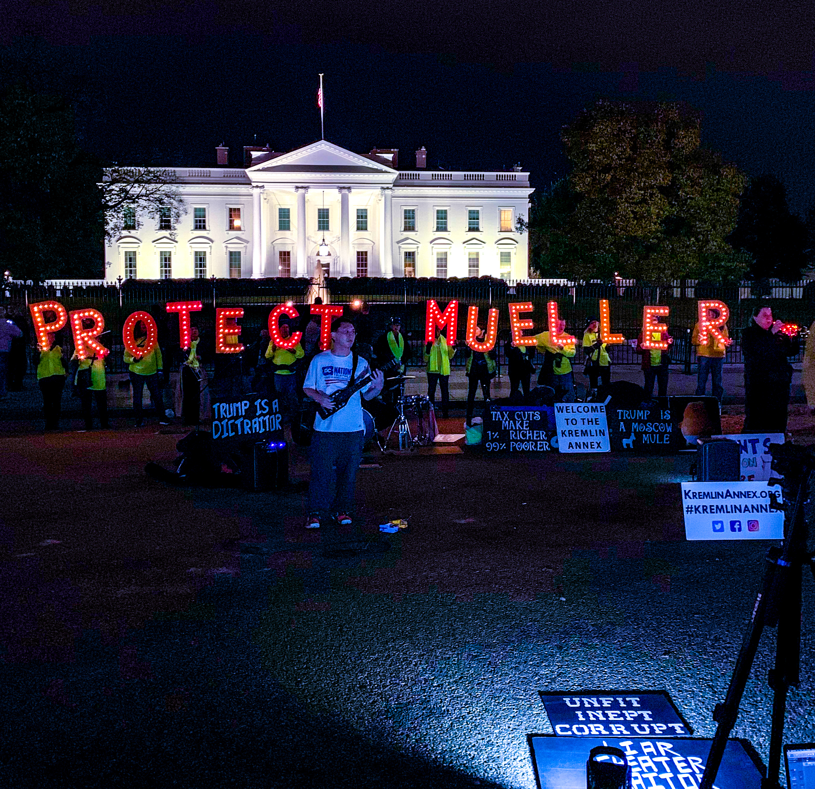 2018.11.07 Protect Muller at the White House, Washington, DC USA 3707